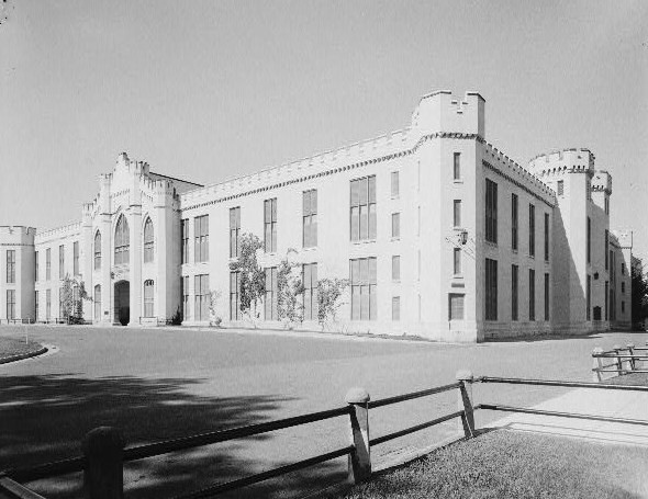 Barracks at Virginia Military Institute — Lexington, southwest Virginia. Significance: Original design by Alexander Jackson Davis, 1848 and sub., burned during Civil War (1864), and rebuilt under direction of Davis (1870-73); of the subsequent additions to the original, one was (1892) by I.E.A. Rose and another (1918-19) by B.G. Goodhue, both relying heavily on earlier Davis drawings. :*Latest addition, referred to as "New Barracks," was built 1946-1948. The structure was named a National Historic Landmark in 1966. Since its construction the Barracks has housed sleeping quarters, classrooms, and administrative offices for VMI. In recent years classrooms and offices have been moved to nearby buildings. 1968 Image courtesy of Historic American Buildings Survey—HABS - (cropped).